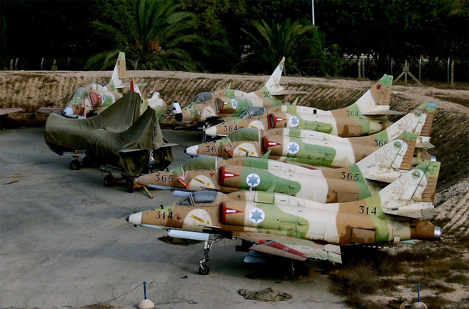 A storage site for Israeli Air Force McDonnell Douglas A-4N Skyhawk aircraft, awaiting dismantling.